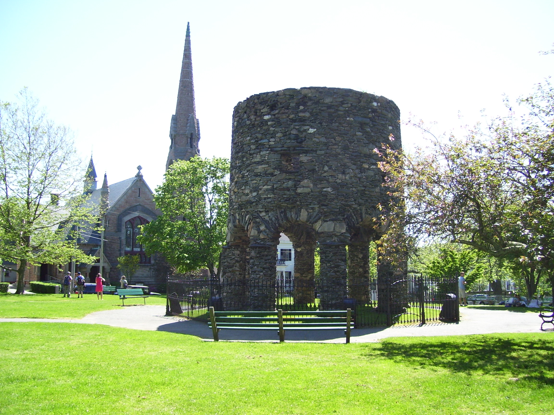 My 2008 photo of the Newport Tower in Newport, Rhode Island.